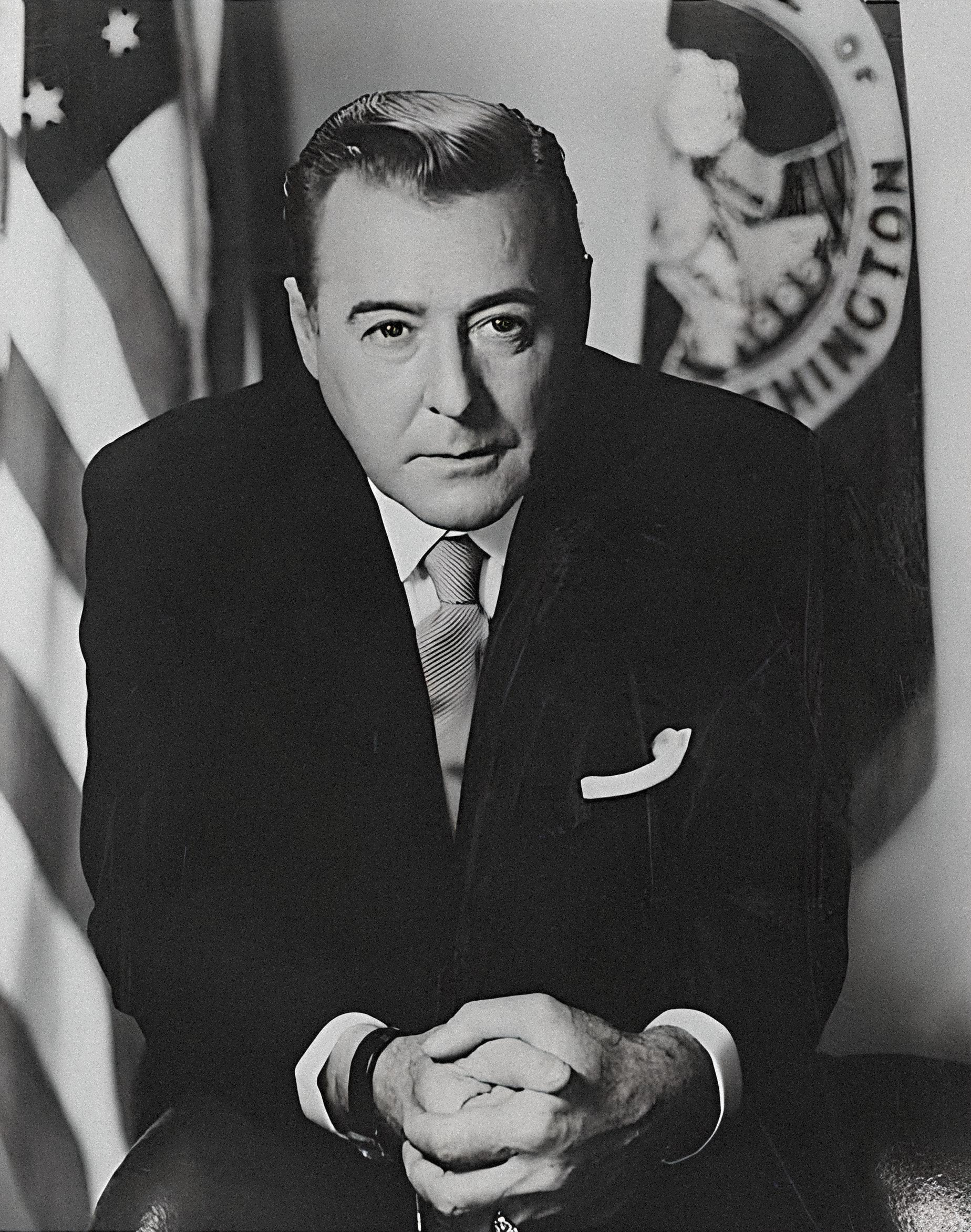 The late U.S. Senator Warren G. Magnuson (D-WA)